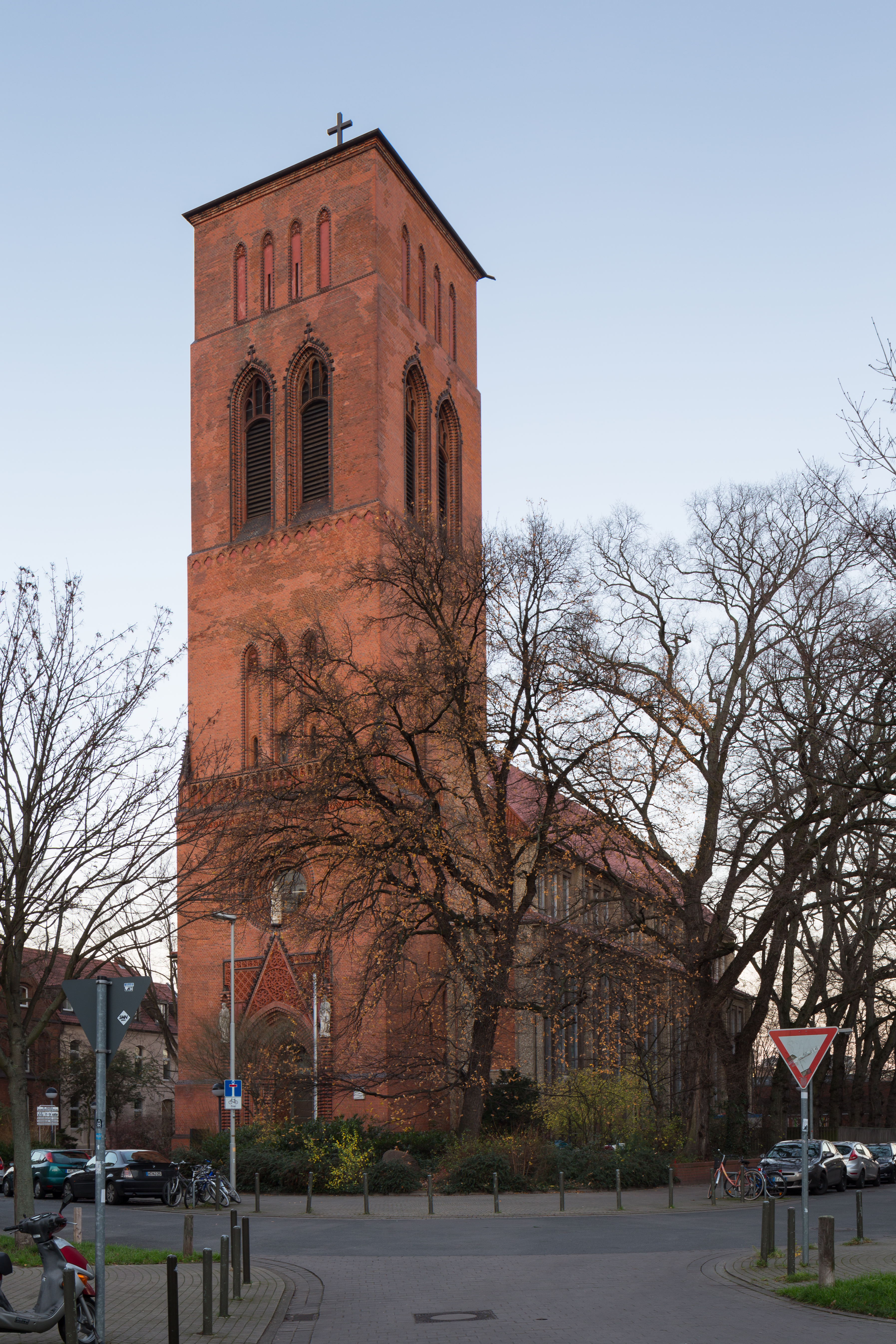 Marienkirche church located at Marschnerstrasse in Nordstadt quarter of Hannover, Germany.